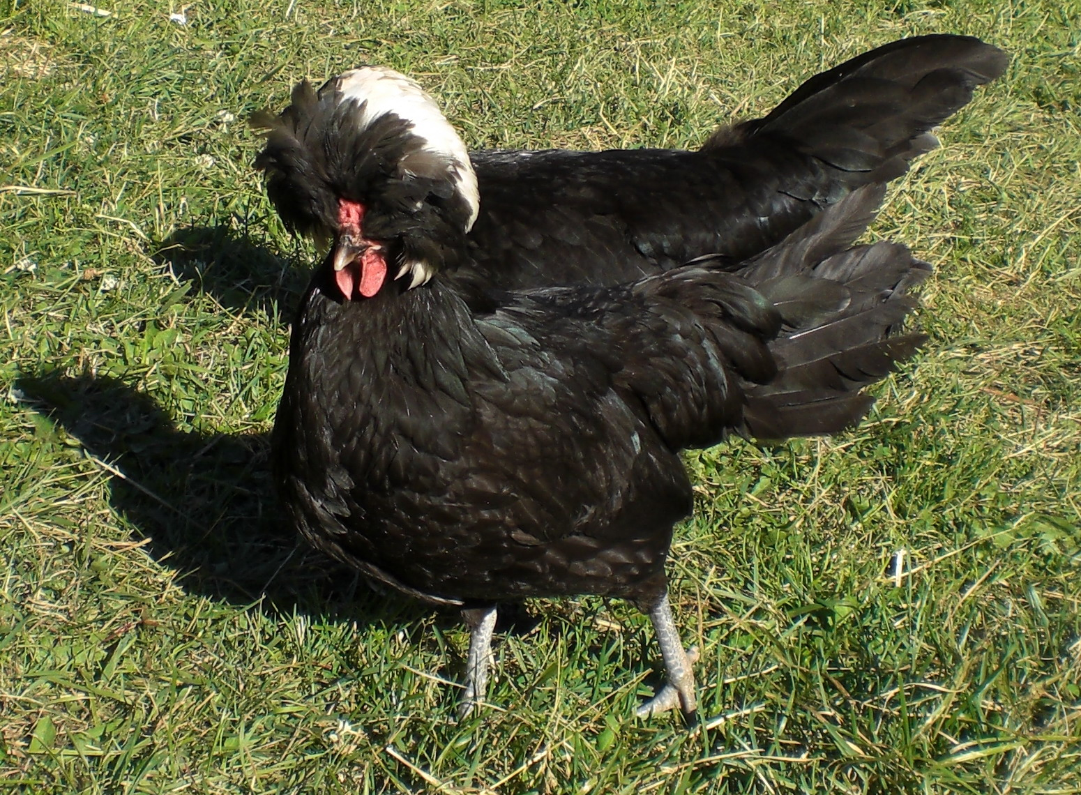 White-Crested Black "Polish" hens